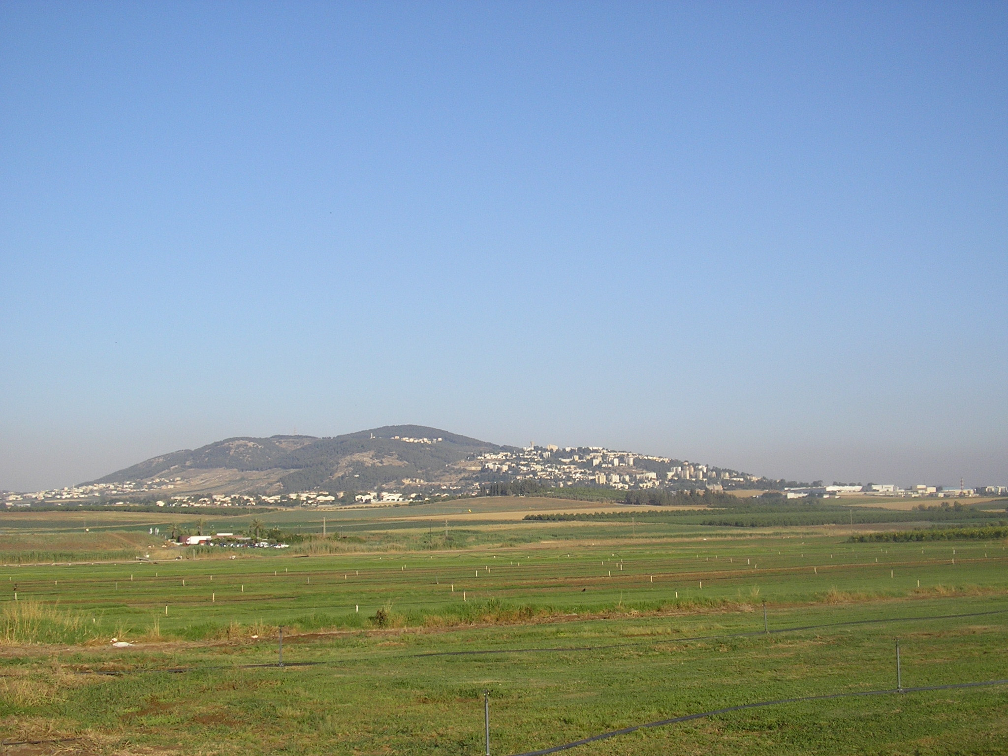 Givat Hamore גבעת המורה